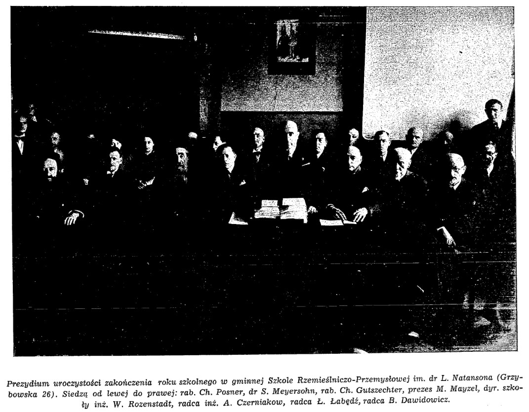 Meeting at the end of school-year in jewish Craft School of Ludwik Natanson in Warsaw. There are visible: rabbi Chaim Pozner (first from left), rabbi Chaim Szyja Gutszechter (third from left), Adam Czerniaków (sixth from left)